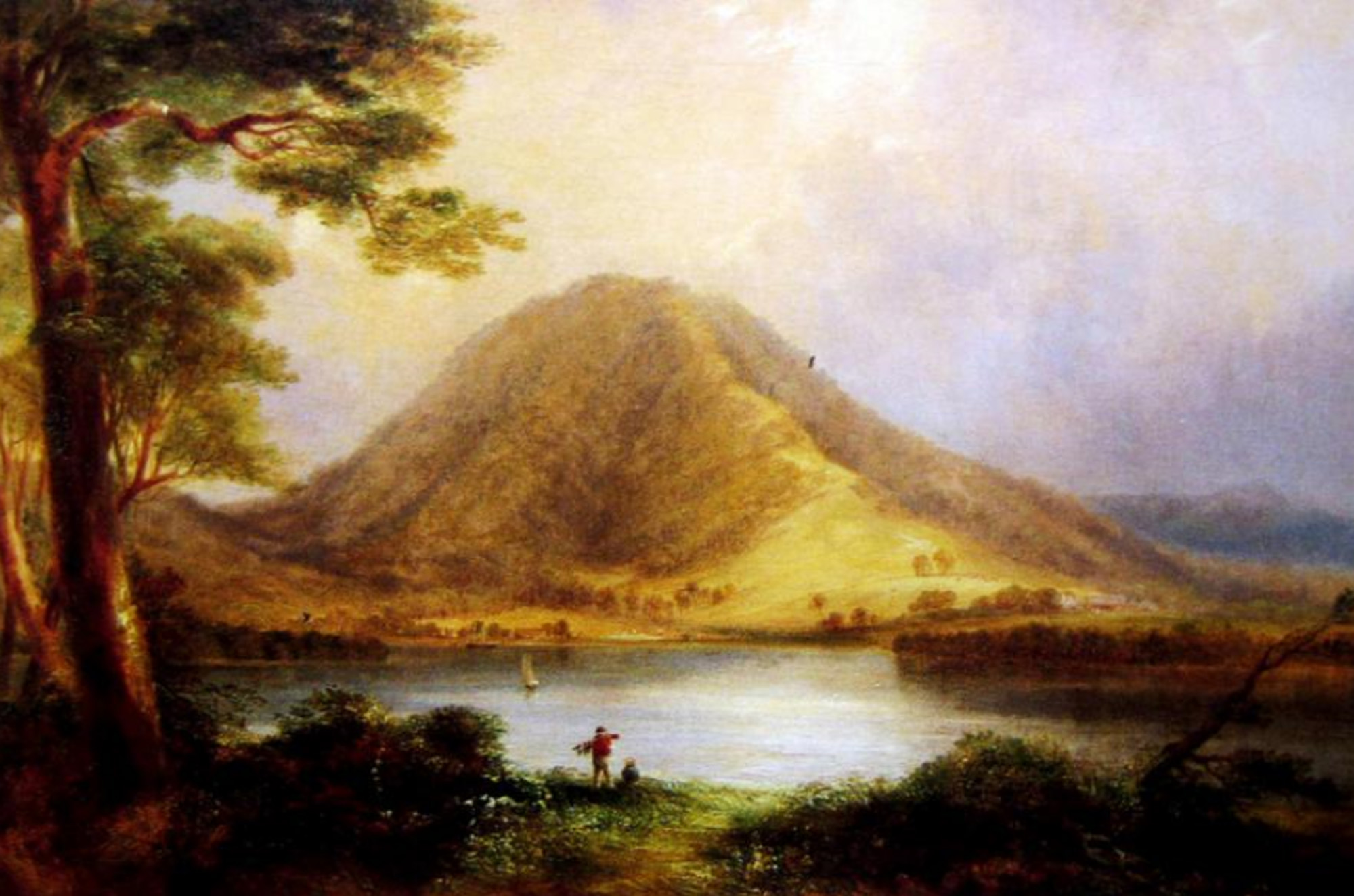 Oil painting called "Coolangatta Mountain" by Conrad Martens dated 1860